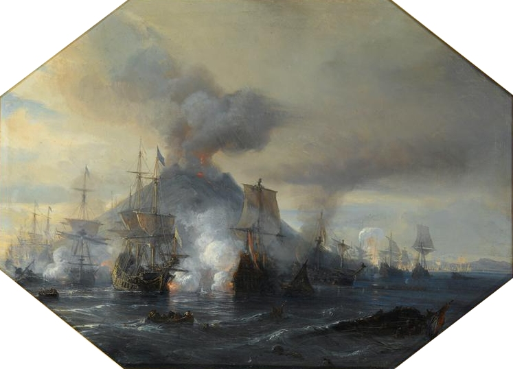 Battle of Stramboli, french naval engagement against the dutch and the spaniards.